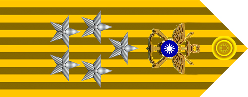 General Special Class rank insignia. This rank used to be the highest one in the Republic of China's Army.